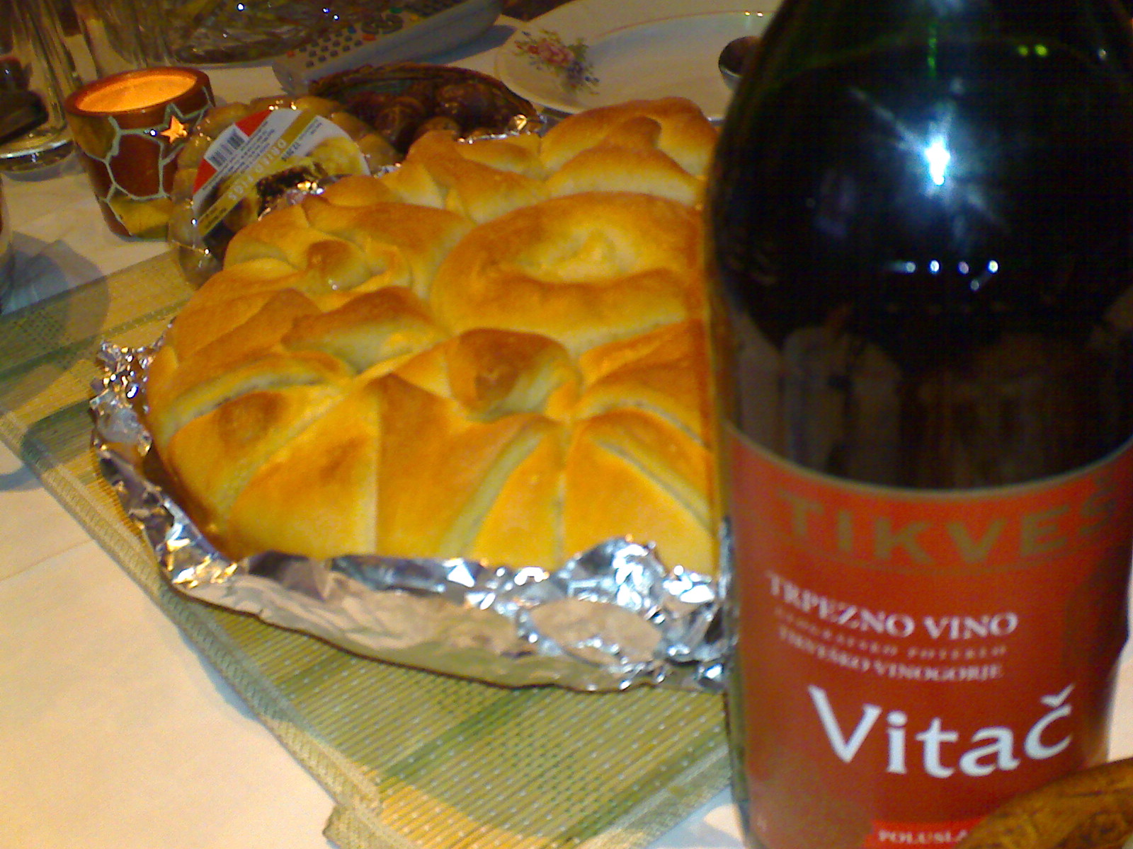 Badnik bread with coin and table red wine from the Tikvesh region of Macedonia.